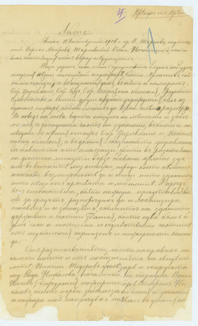 Document by Boris Mokrev 18 December 1906